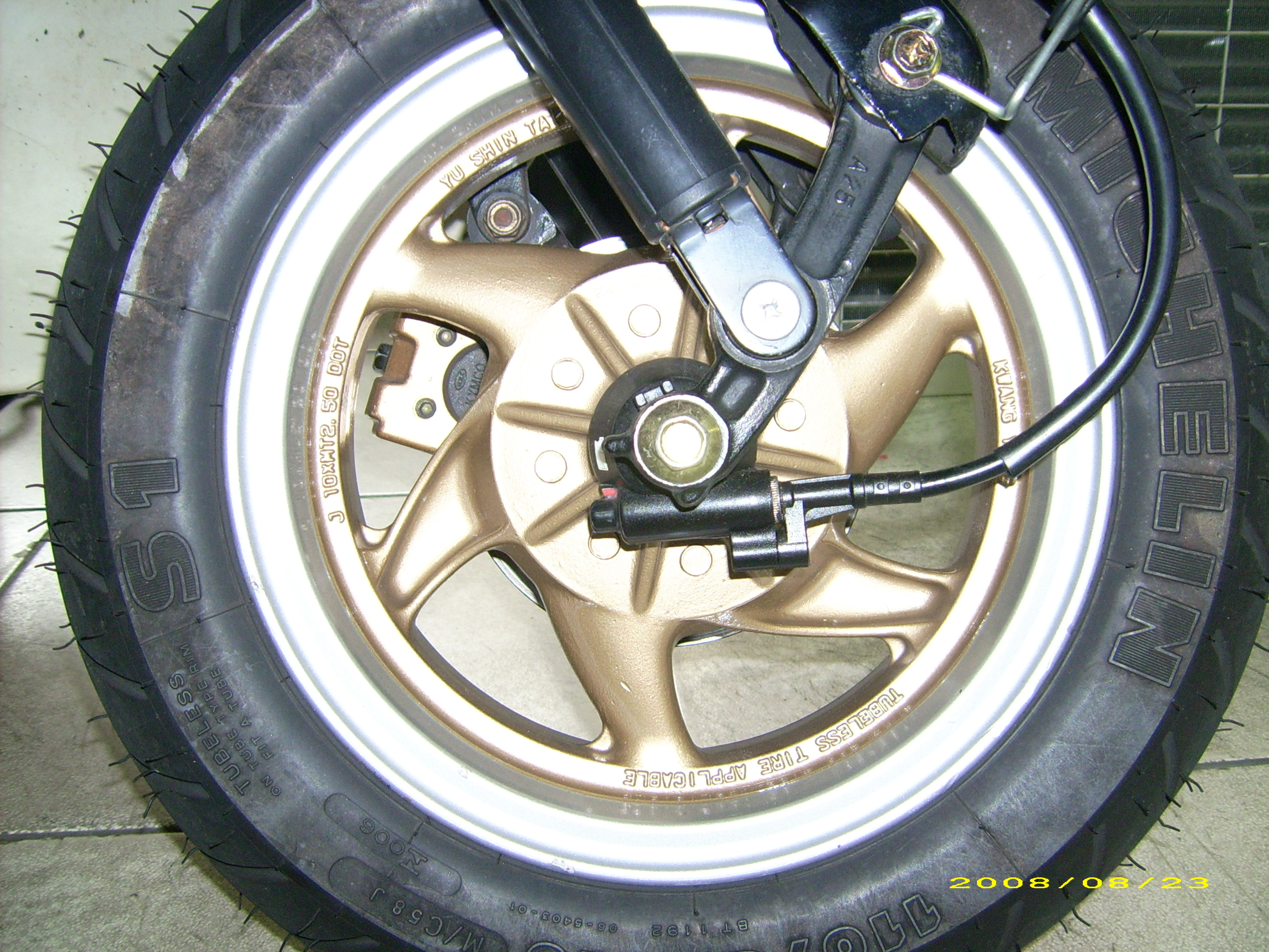 TLAD（Trailing Link & Anti Dive Suspension）